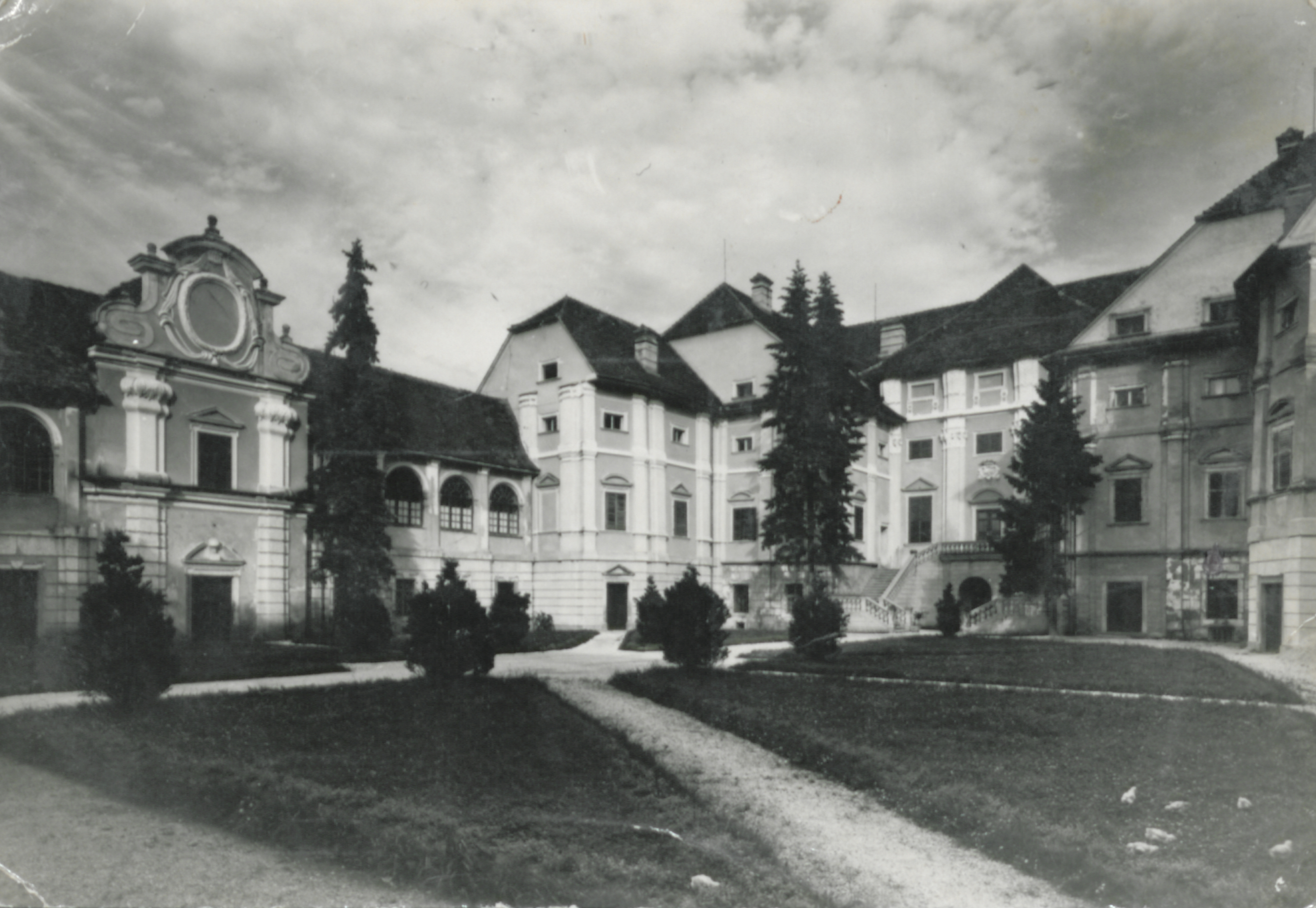 Postcard of Štatenberg mansion